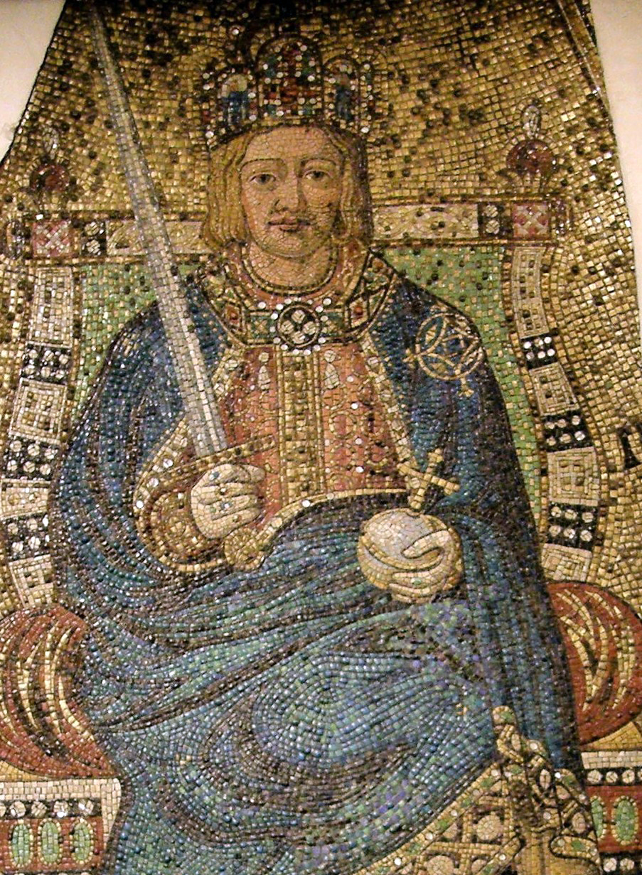 Louis IV, Holy Roman Emperor.